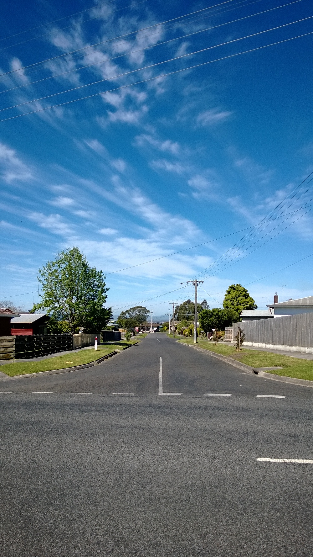 Laid out around the 1950s, this street forms a central part to the town, as well as being resident to the Rossmore Hotel.